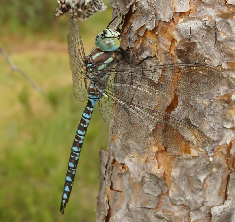 Male of Aeshna Crenata, taken in Russia, near Kanneljarvi